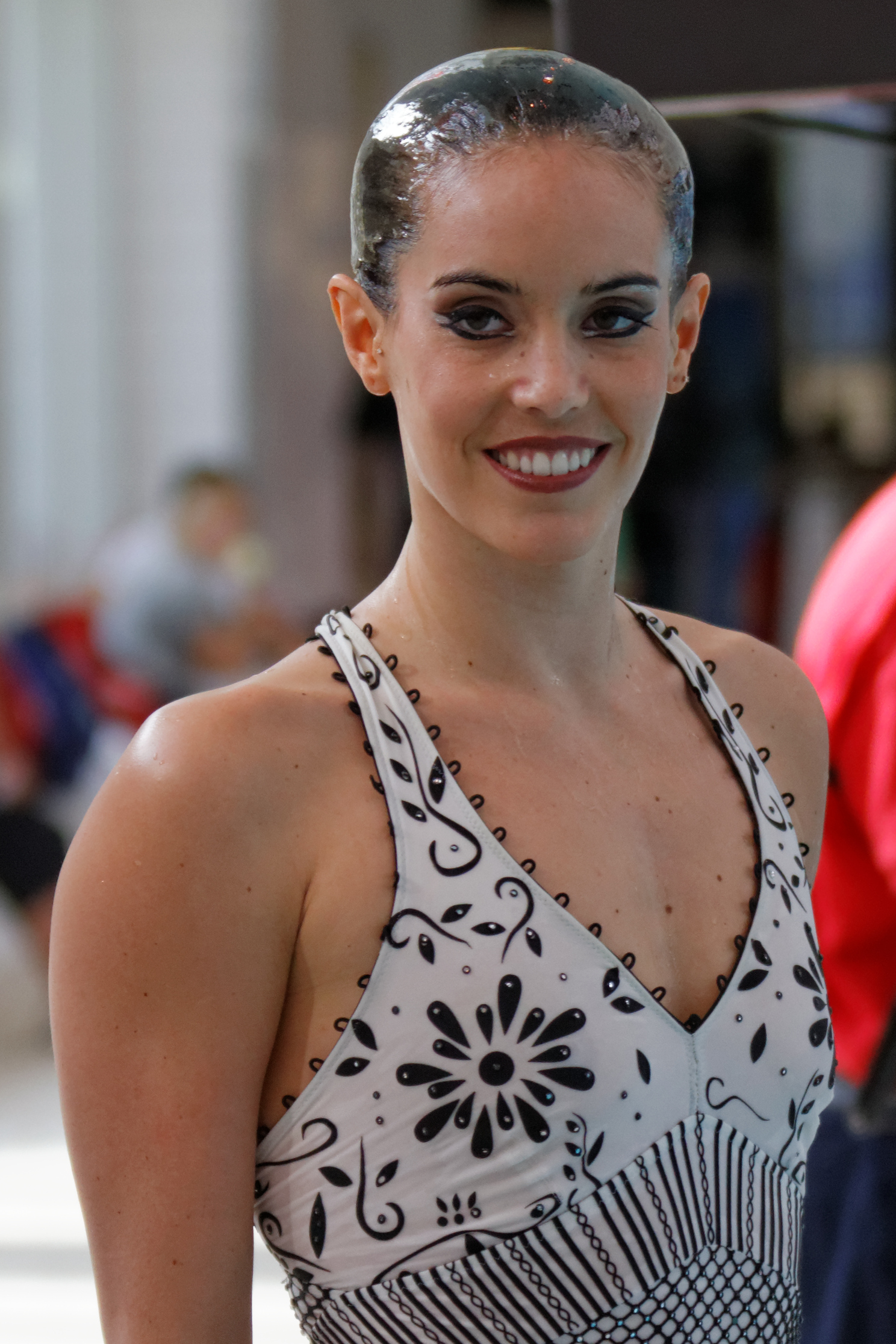 The Spanish synchronized swimmer Ona Carbonell during the free solo routine at the French Open in Montreuil, March 15, 2013.